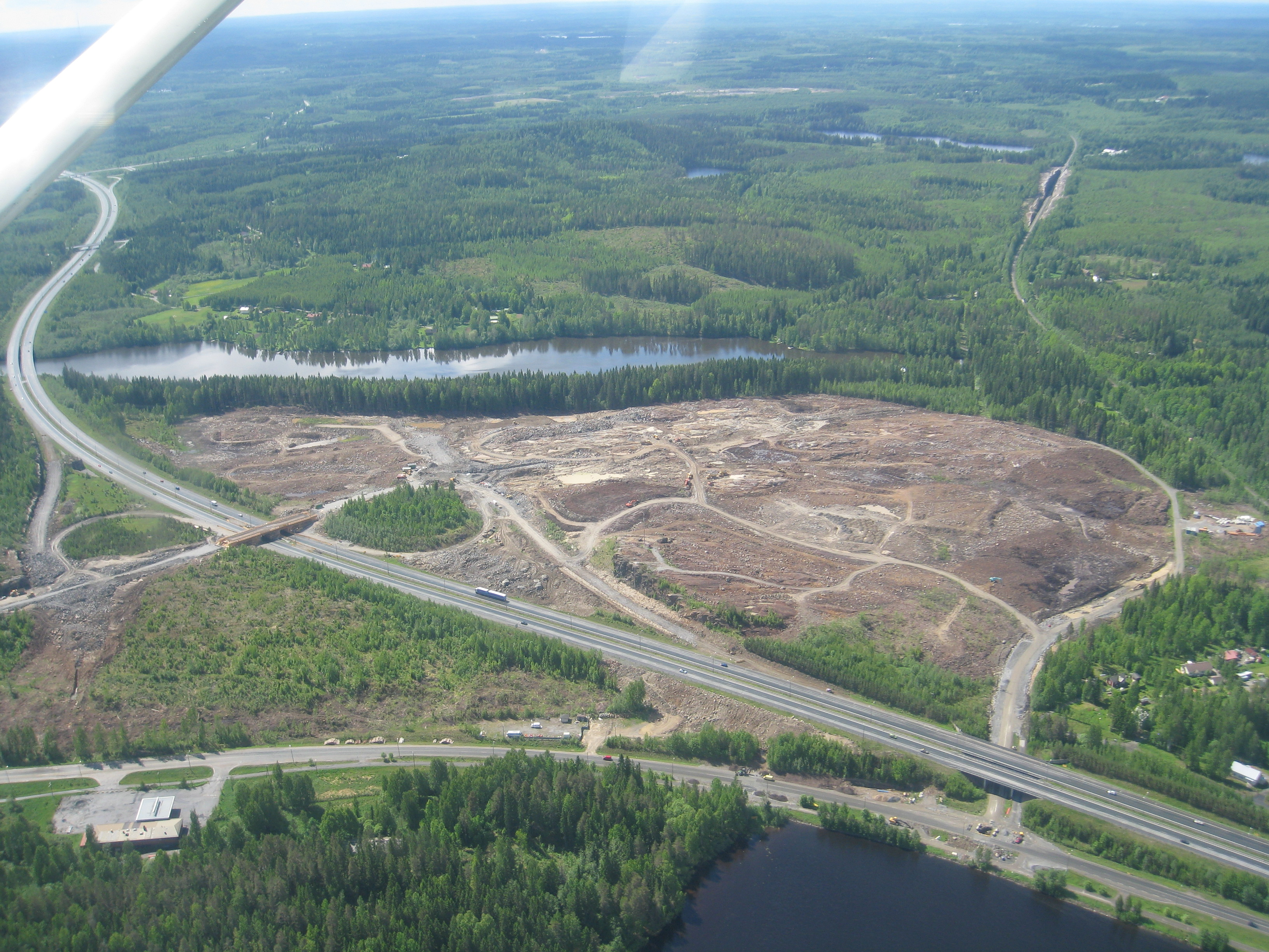 National roads 5 and 9 (E63) and Matkus business area construction site in Kuopio, Finland